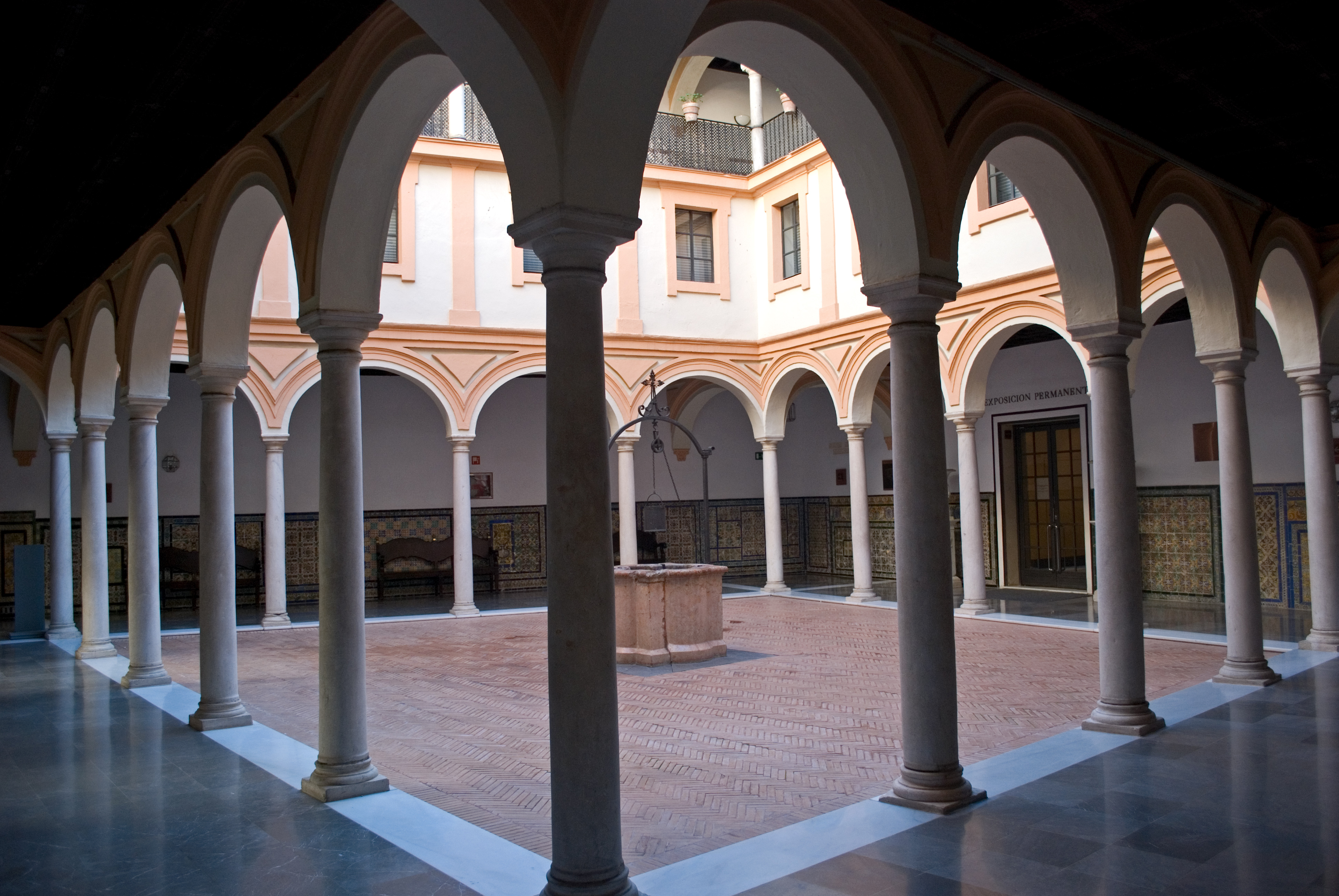 Courtyard — Fine Arts Museum of Seville